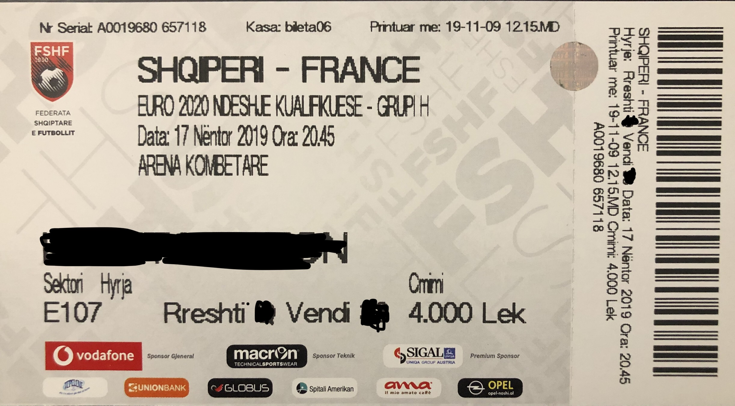 Albania vs France valid for EURO2020